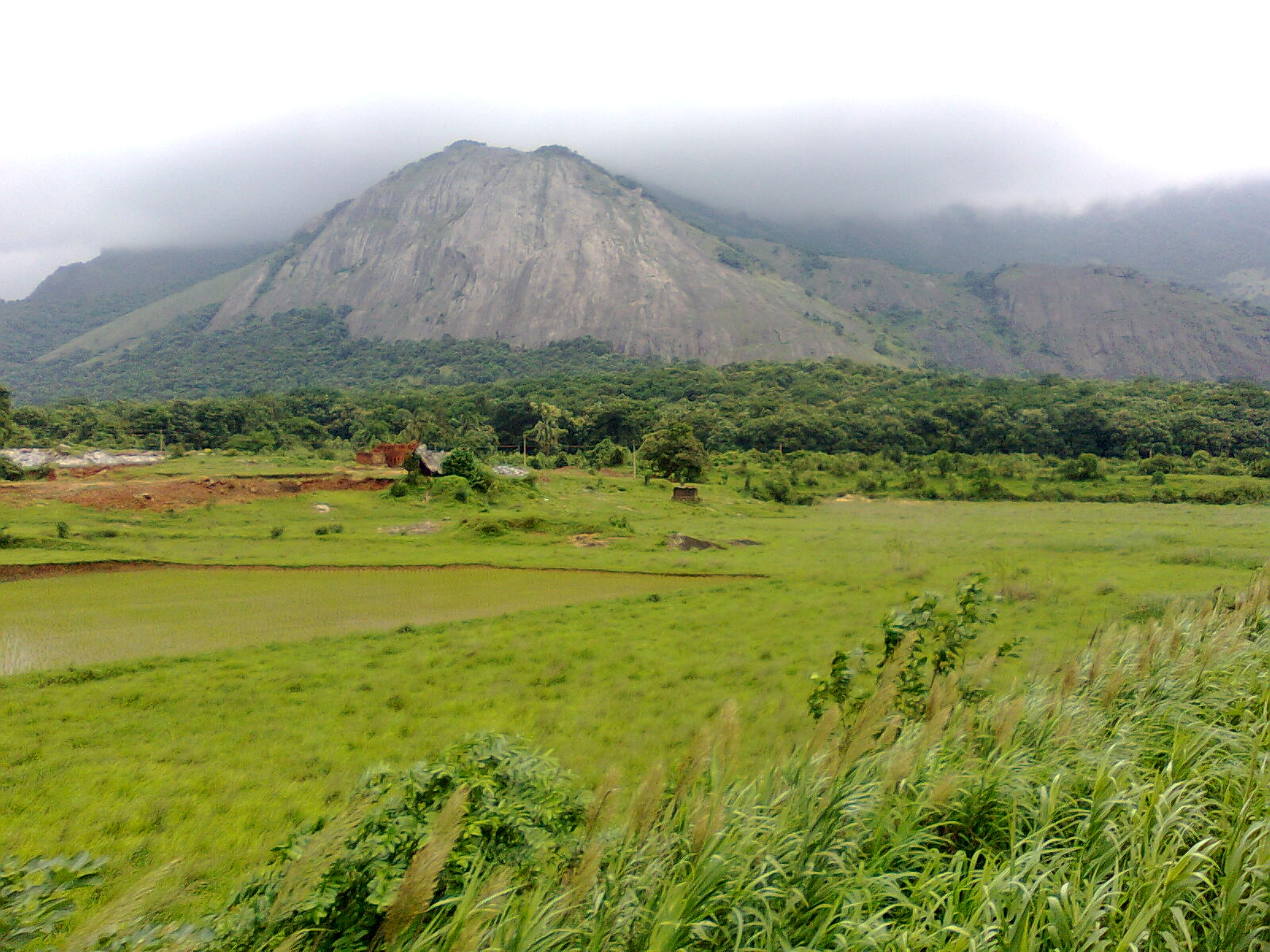 Palghat Gap View